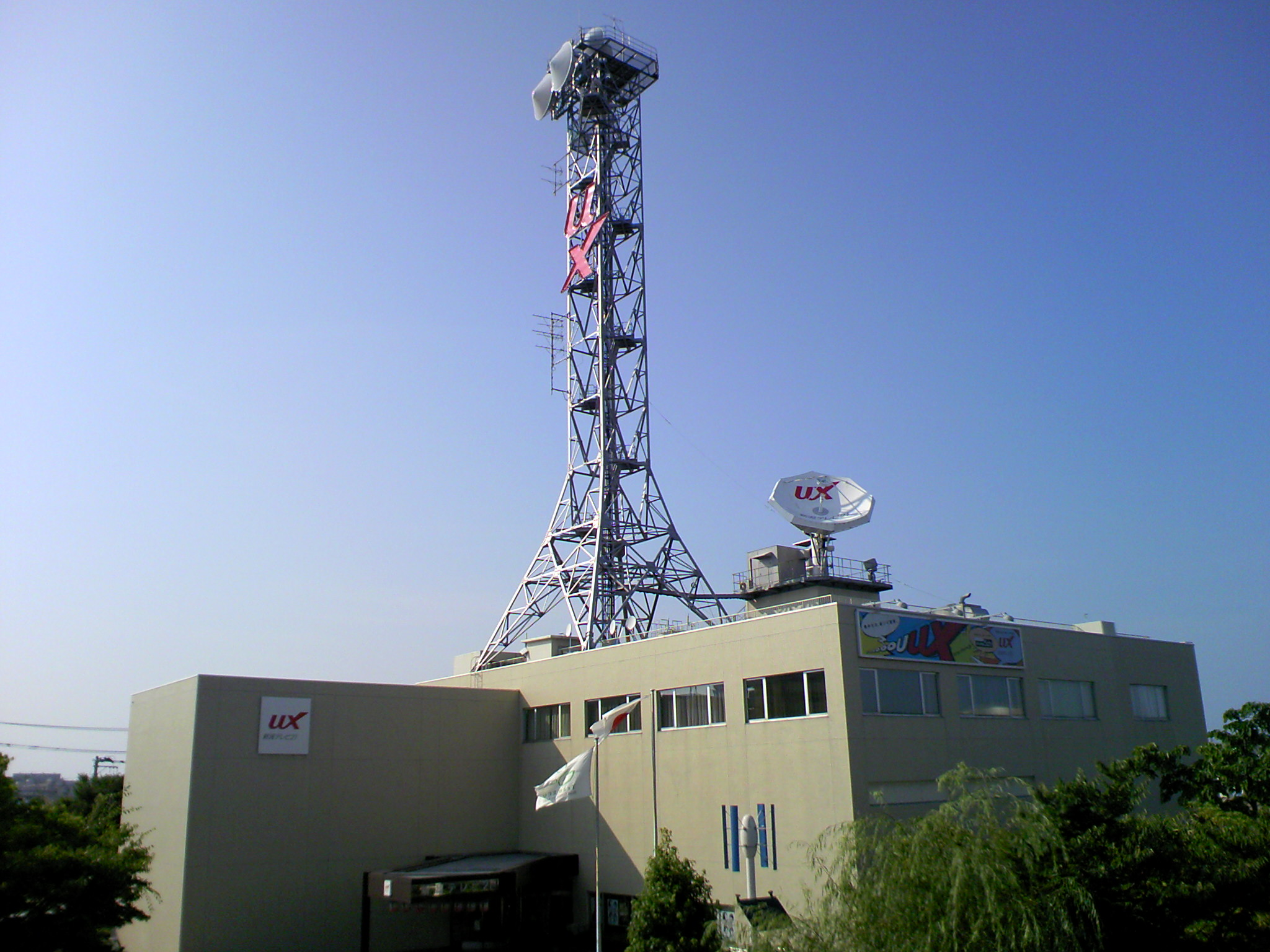 The Niigata Television Network 21,Inc.